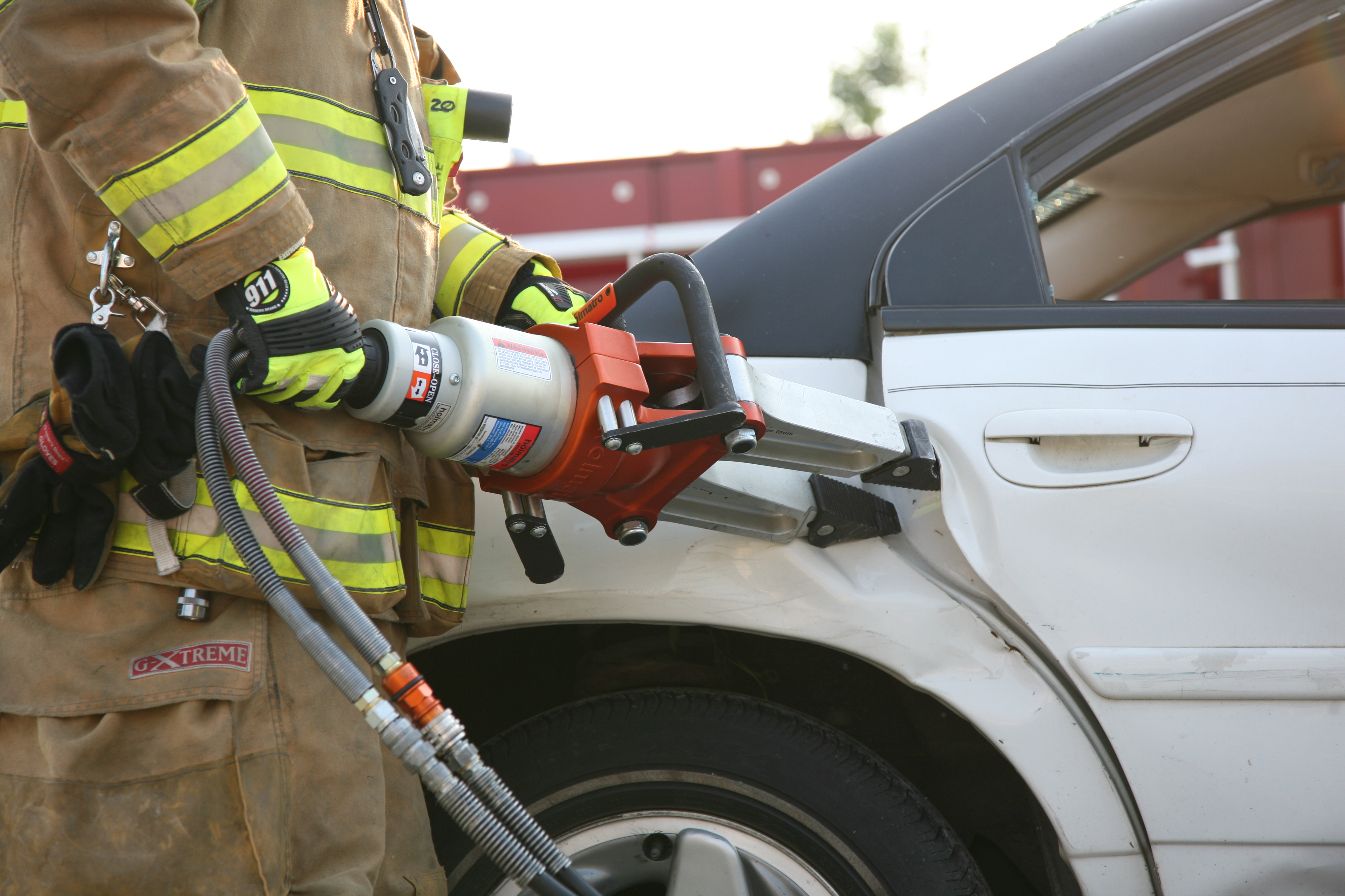 Hydraulic spreader